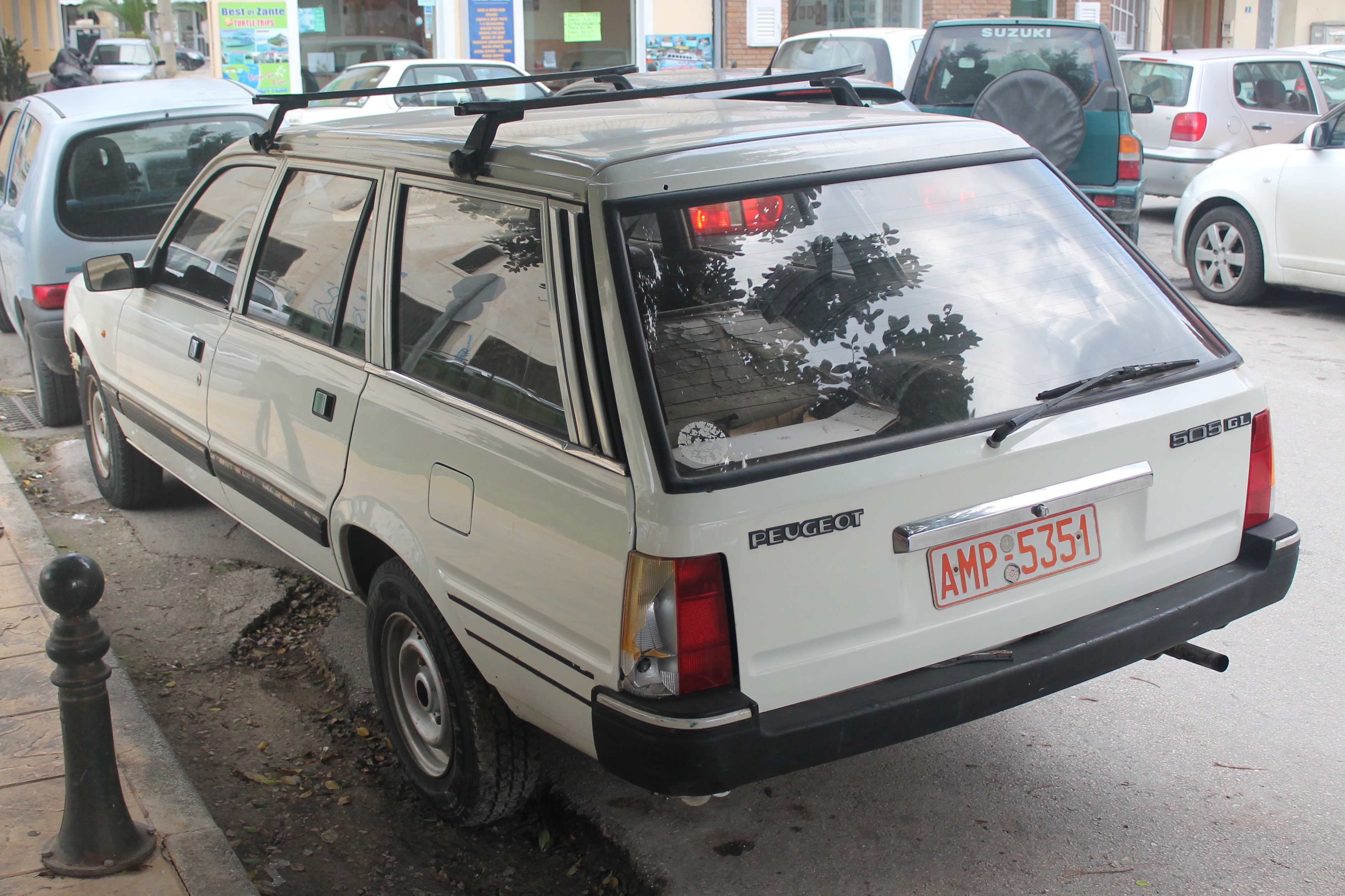 Saw this one a couple of weeks ago, but didn't get a good shot as it was night. Oddly, I don't see many of these. I don't believe they were popular in Greece. This one has a red number plate which signifies either a foreign resident, or a family with five or more children. It looked rather battered which was a shame, but it was clean. Many more saloons were made than the estate (break). I expect this is owned by a foreigner, as estates are incredibly uncommon here in Greece. Quite possibly an import from another country. These are so long! Must be a nightmare to park it on the streets of Zakynthos (where the streets weren't designed for so many cars!)